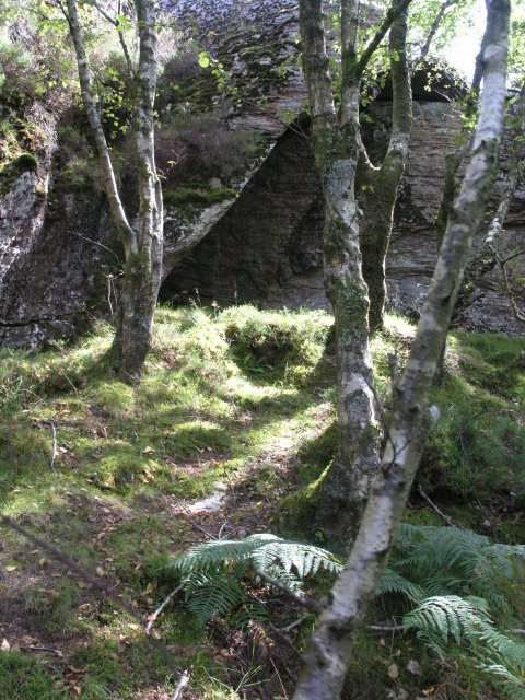 Twm Sion Cati's cave This is the legendary hideout of Twm Sion Cati, the Welsh equivalent of Robin Hood, whose exploits are based in the mid 16th century. While his youthful doings have probably been embellished over the years by story tellers, the real man, Thomas Jones, did exist and was born in 1530 and died around 1620. In his latter years it's known that he was given a royal pardon for his misdemeanours and his reputation of being a thief was probably forgotten as, among other things, he became a justice of the peace and was known as a Welsh historian. The cave itself is on Dinas Hill, today managed by the RSPB and is quite an experience to visit. Although quite small and a bit of a contortion is needed to enter, large amounts of graffiti have been scratched onto its walls over the years, some of it with dates indicating that they were written nearly 200 years ago. What's obvious is that the calligraphy used in older graffiti was far superior to the more recent scratchings! It doesn't appear to have been created by erosion, but by some major geological event in the past that fractured the surrounding cliffside.